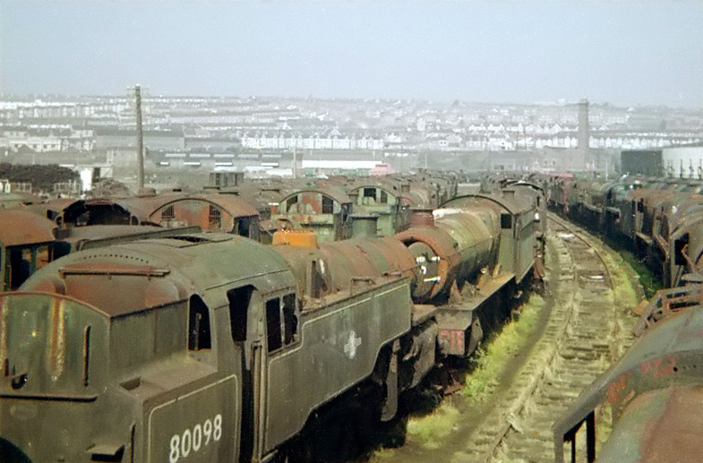 Hundreds of engines await their fate in this shot taken in the 1970's